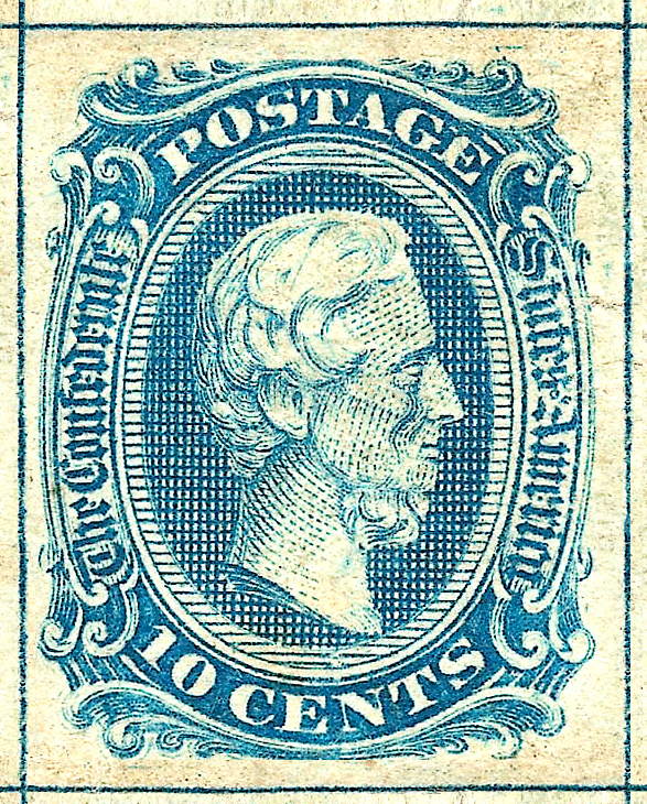 Confederate "frame-line" stamp issue